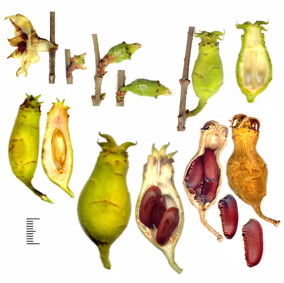 Fruit ripening of Chimonanthus praecox